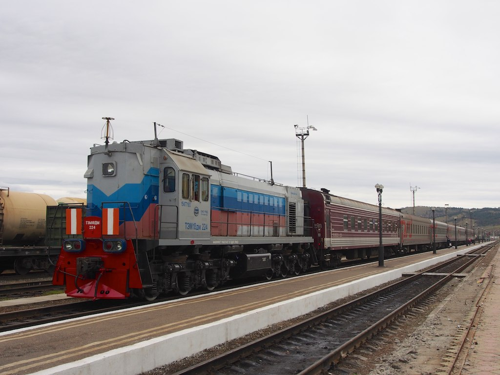 Trains to Mongolia and China spend 5 to 6 hours here while Russian border police check passports and take care of exit formalities. The cars that will continue thru Mongolia to China have been switched out of train 362 and after Customs formalities are completed they will proceed across the Russian Mongolian border to Suhbaatar in Mongolia were the Mongolian entry Customs do their job.